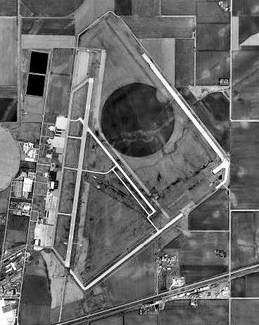 USGS orthophoto of Kearney Regional Airport, formerly Kearney Army Airfield (AAF), in Kearney, Nebraska, United States.